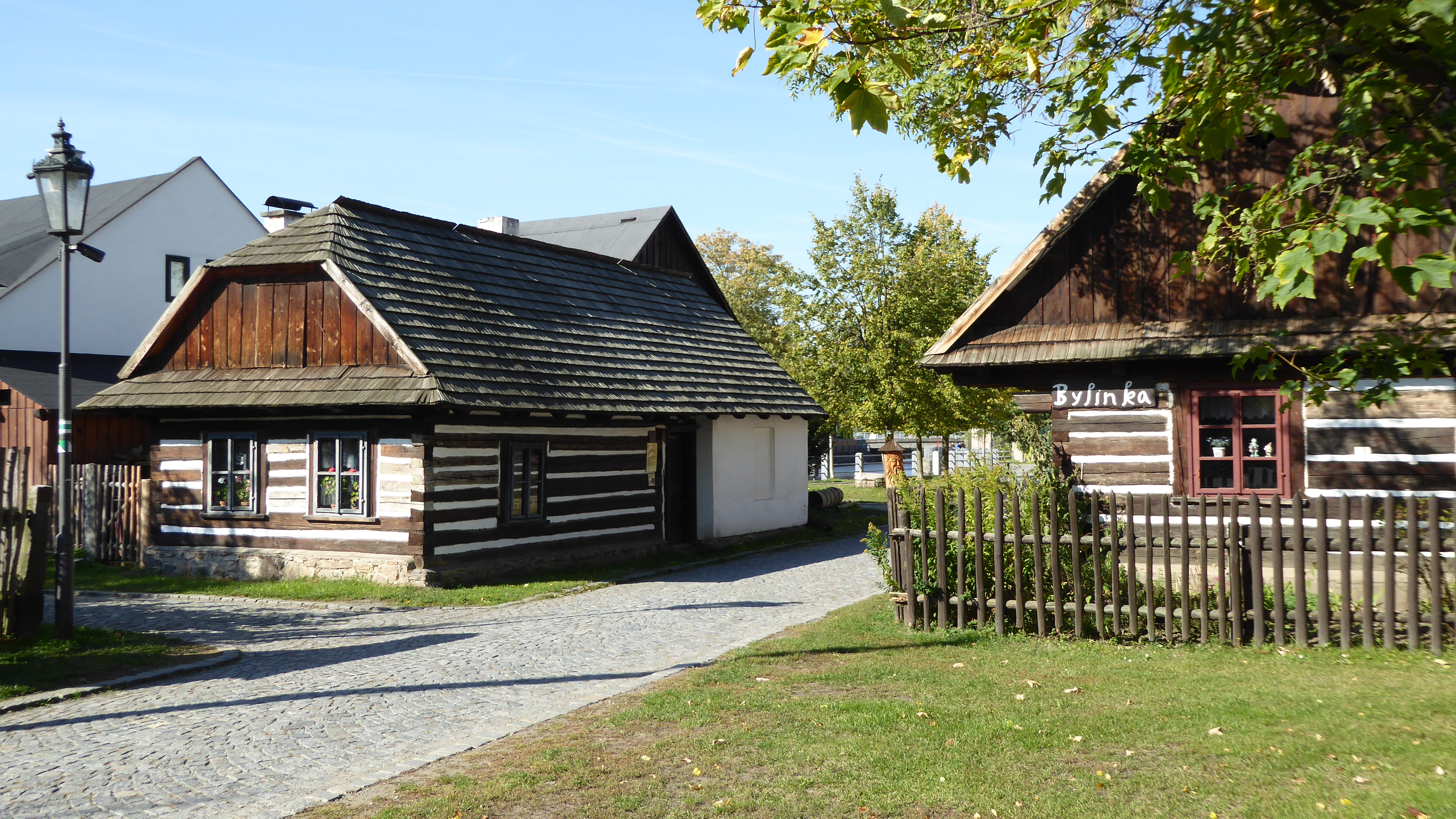 Urbanistic complex of human buildings in the town of Hlinsko near the river Chrudimka with of localited name Betlem. It presents the folk architecture in the area of Českomoravská vrchovina. In 1989, significant timbered cottages became part of a museum in the nature entitled Set of Folk Architecture in Vysočina. In 1995 they were proclaimed as a monument reservation of the rural type in town "Hlinsko-Betlem". The same name of the tourist crossroad, marked by the Czech Tourists Club, stands at the entrance to locality in "Čelakovsky" Street. In one of human cottage was the Tourist Information Center Hlinsko (TIC) was established, also with the exposition of folk art (wooden toys, story of wooden doll). On the photo of cottages No. 62 (left) and No. 134 (Herb), green marked tourist trail (with TIC, section of tourist road Hlinsko-Betlem - Town Museum and Gallery). Photo-location: Czechia, Pardubice Region, Hlinsko, street "Čelakovského", "Kameničská" Highlands".